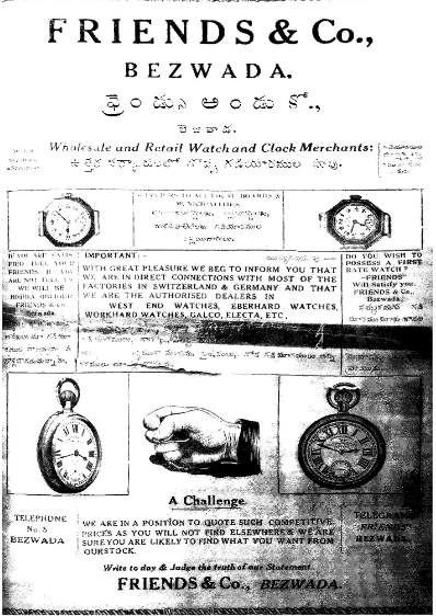 Friends and Co, Bezawada of Gudavalli Ramabrahmam advertisement